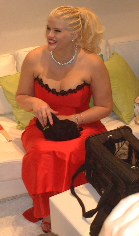 Anna Nicole Smith at the 2003 E3